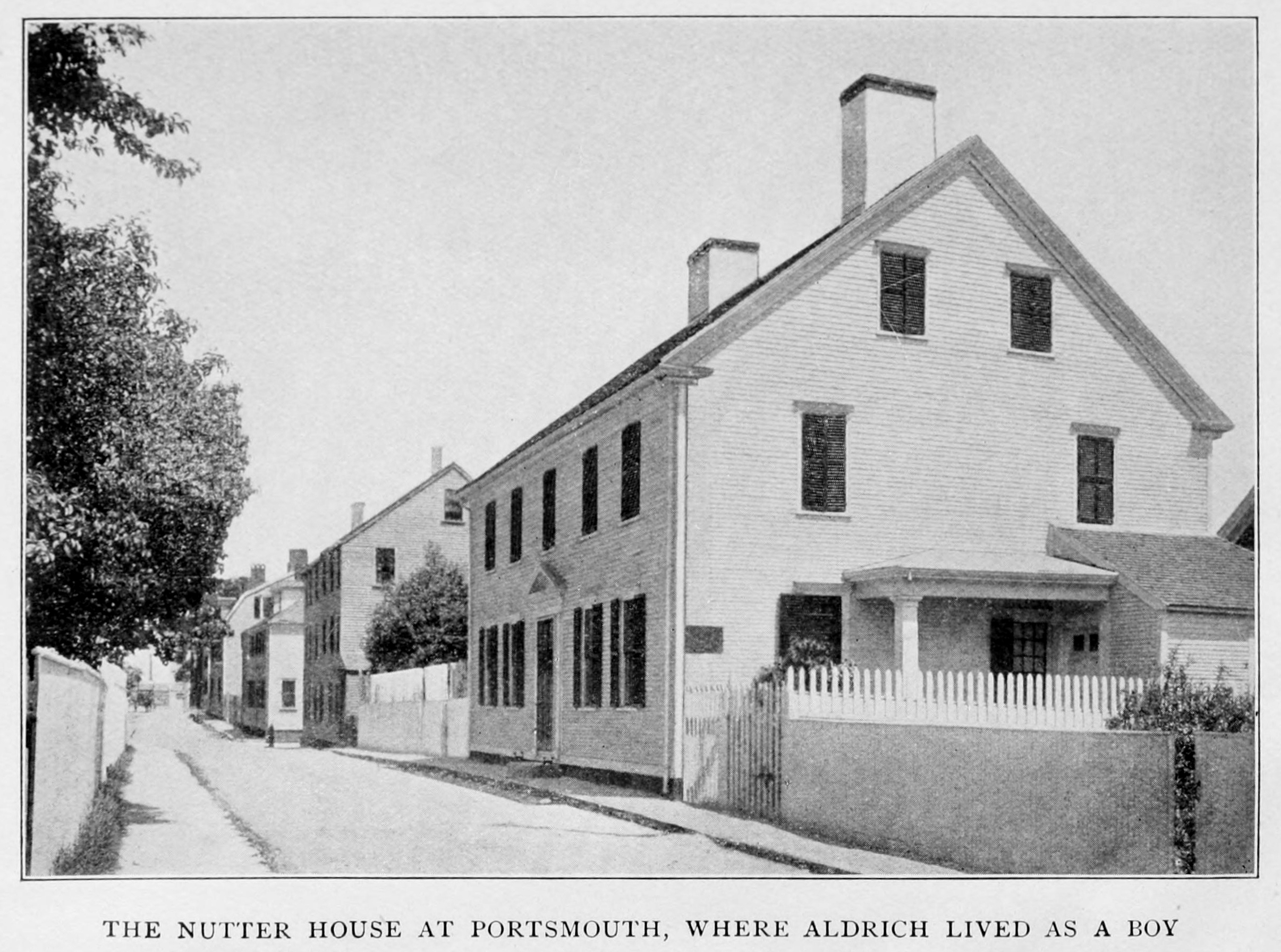 Home of Thomas Bailey Aldrich in Portsmouth, c1910.